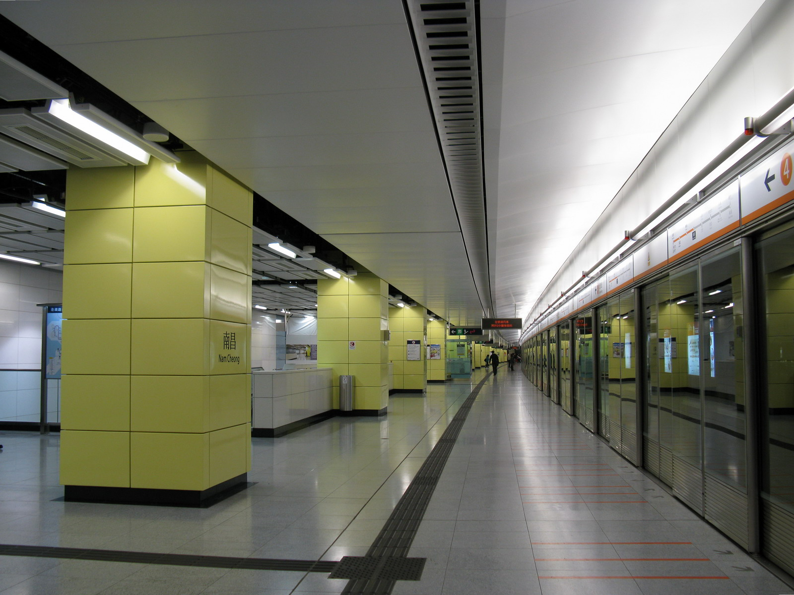 南昌站-東涌綫月台 Tung Chung Line Platform of Nam Cheong Station